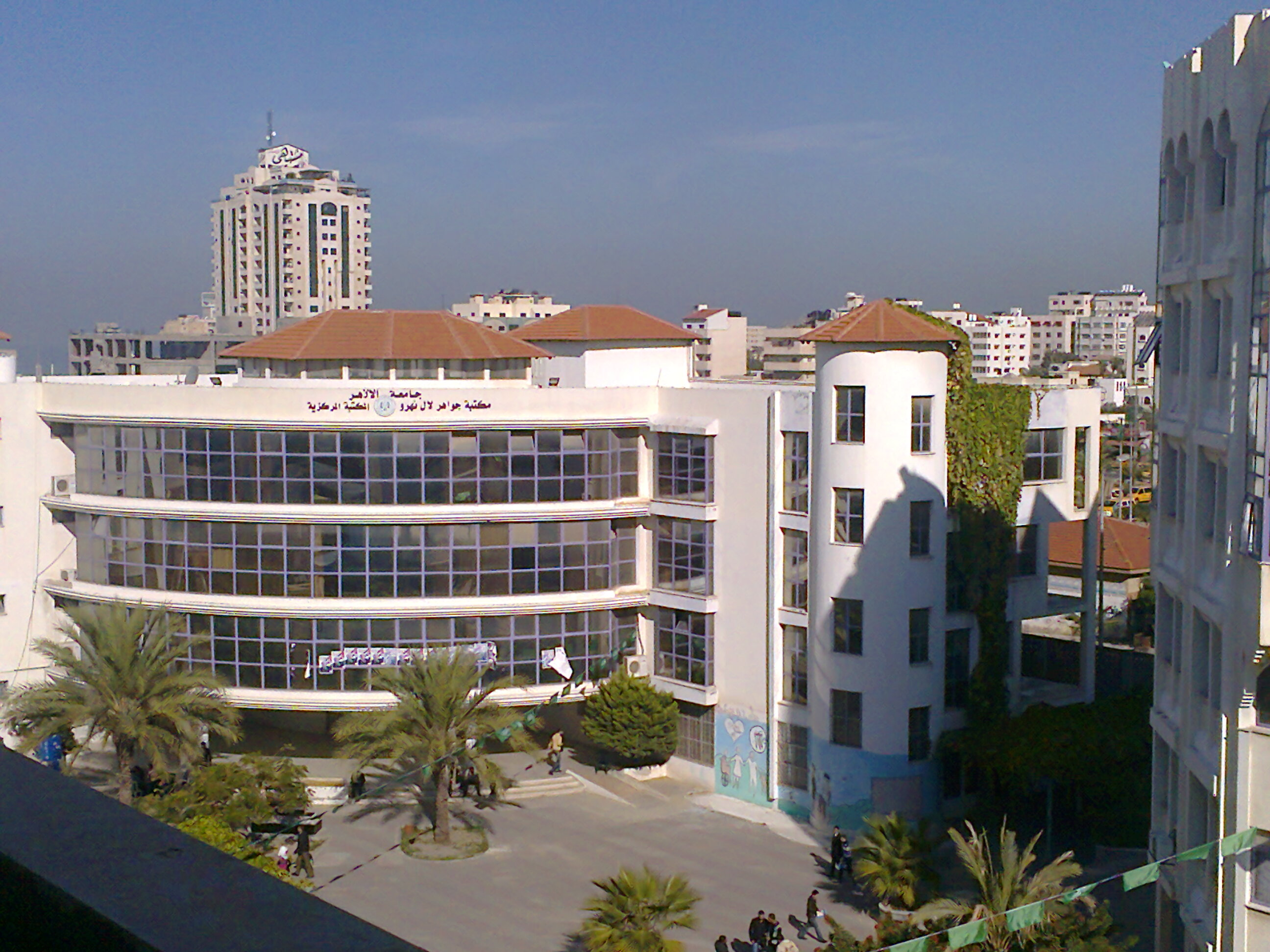 مكبنى مكتبة جواهر لال نهرو في جامعة الأزهر